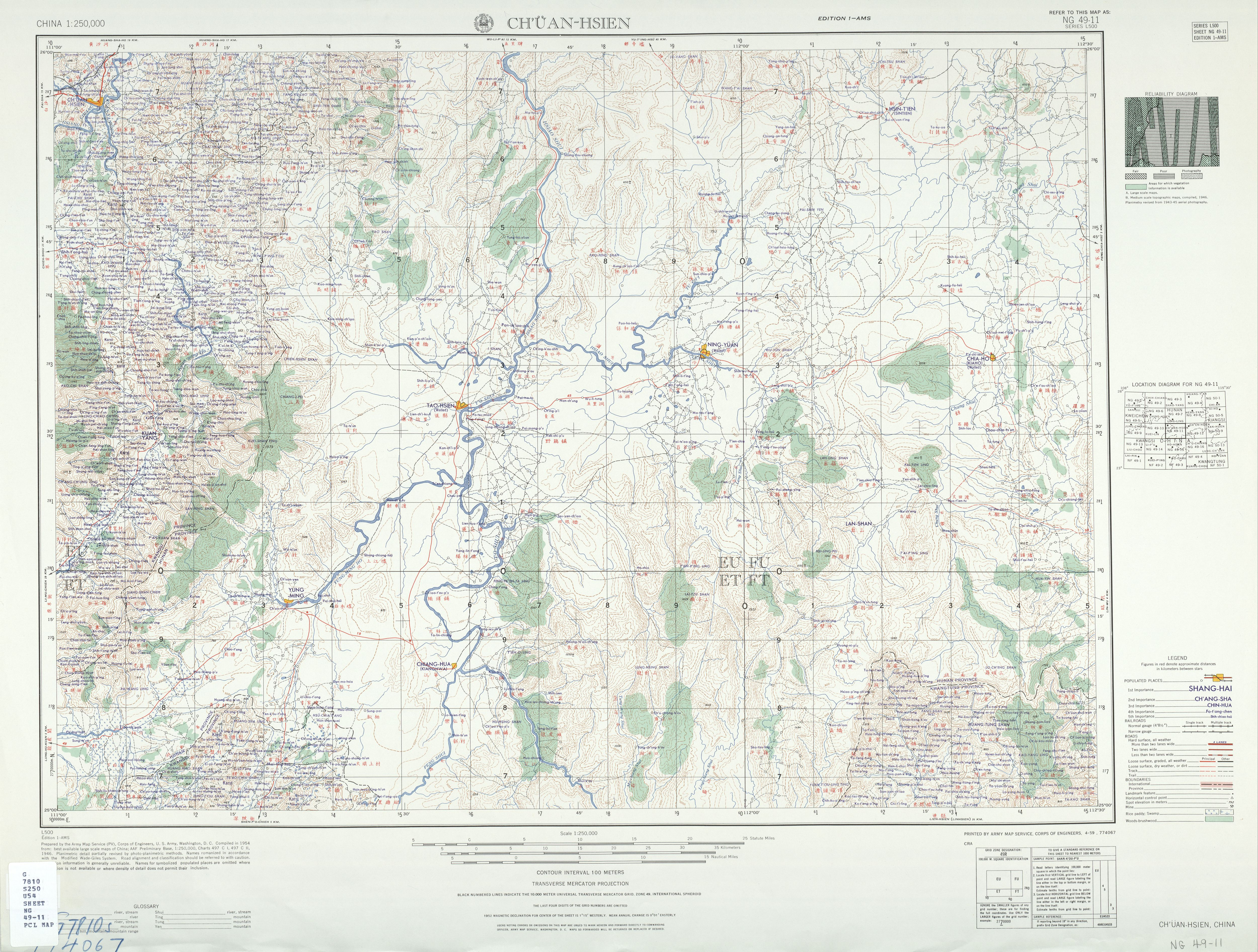 China AMS Topographic Maps